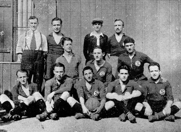 Swiss Champion 1921/22 Servette FC Back: Teddy Duckworth (Trainer), Bouvier, Dessibourg (Goalie),Fehlmann Middle: Richard, Pichler, Perrier Front: Jannin, Pache, Mengotti, Barrière, Bédouret